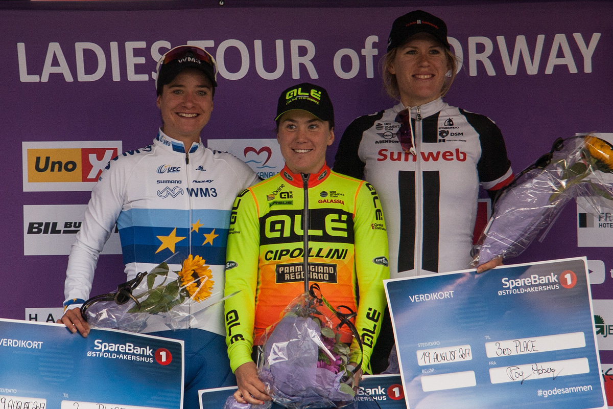 Marianne Vos (2nd), Chloe Hosking (1st), Ellen van Dijk (3rd).